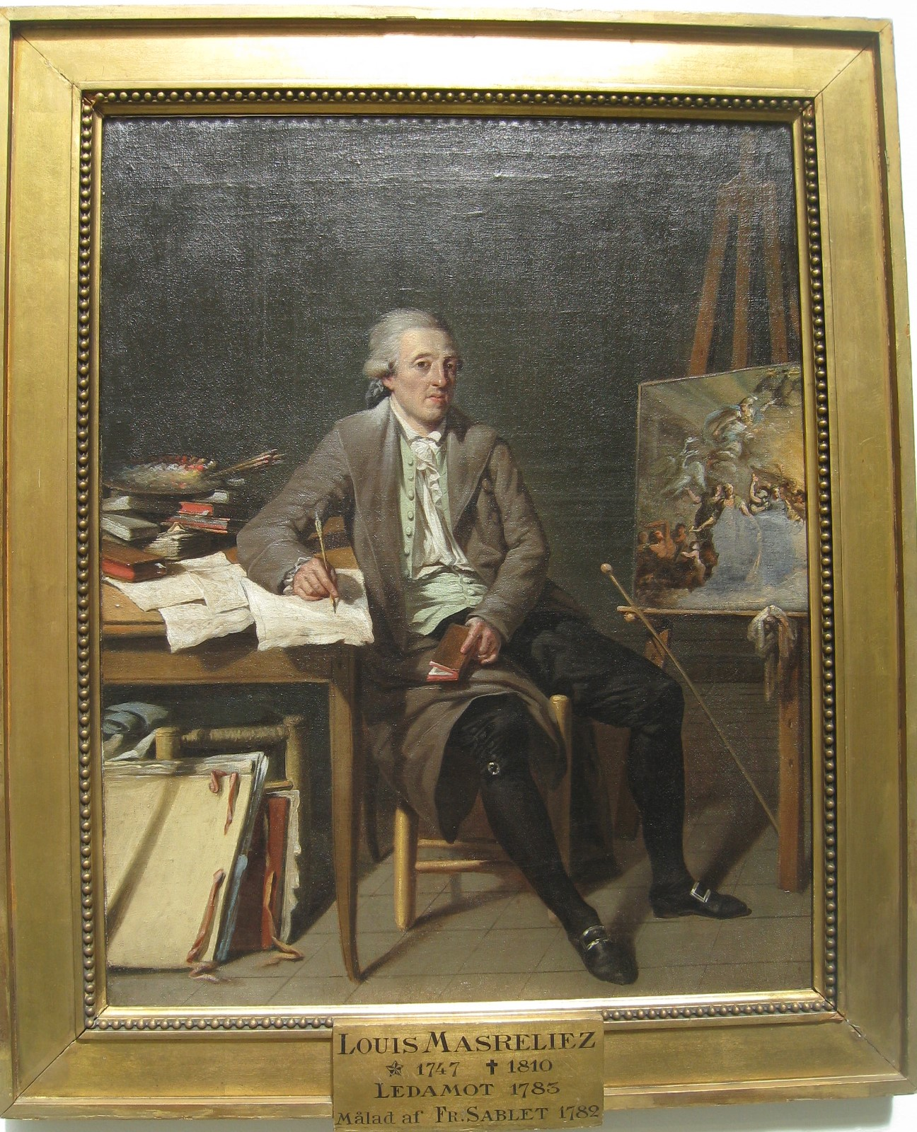 Portrait of the Swedish artist and interior designer Louis Masreliez (1748-1810) painted in Rome in 1782 by the French artist Jean-François Sablet (1745-1819), part of a family of artists of Swiss origin. He was also known as François Sablet or Sablet le Romain. Jean-François Sablet was the older brother of Jacques-Henri Sablet (1749-1803), who was known as Jacques Sablet or Sablet the younger.